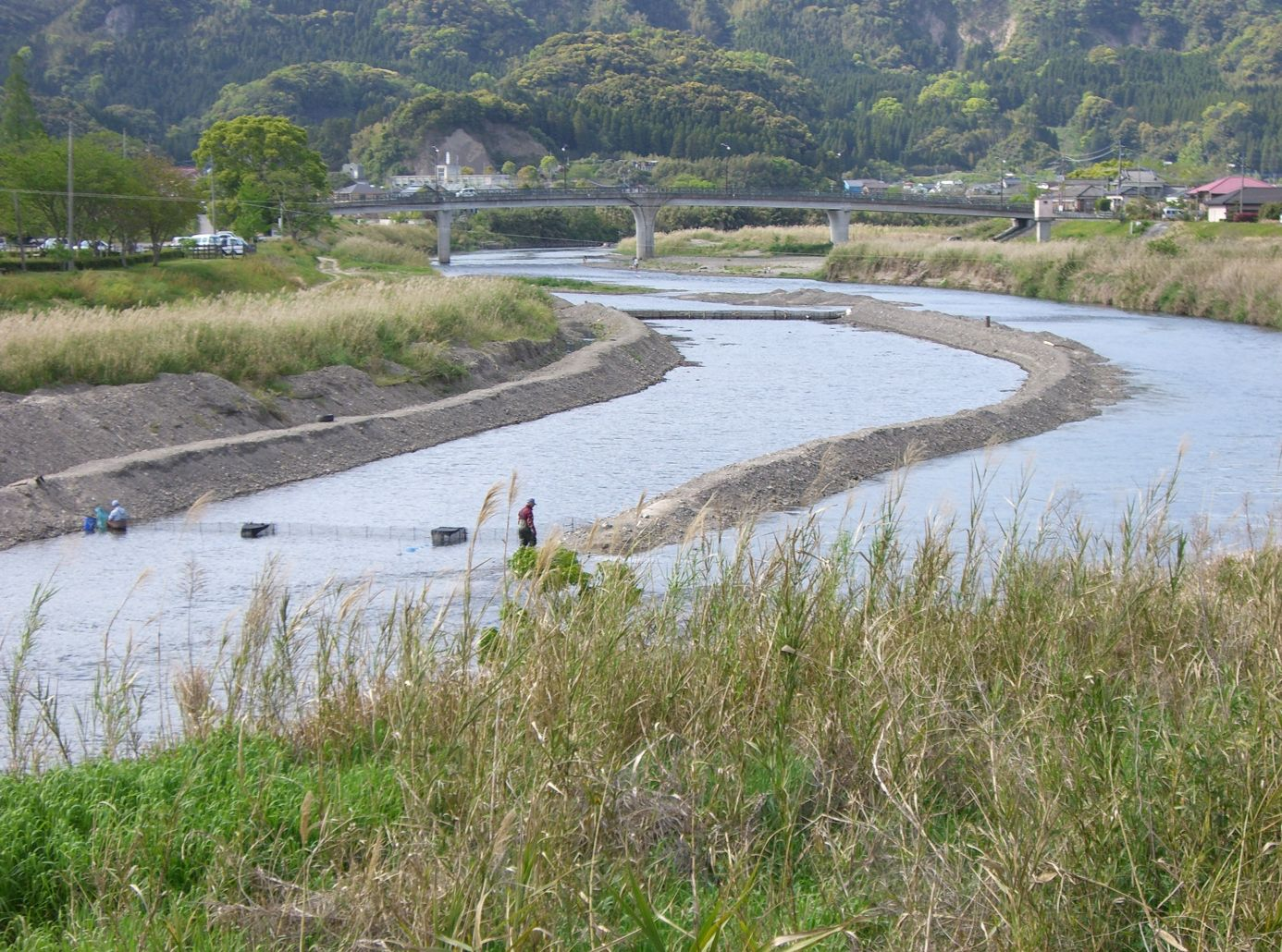 Fishing tiny Ayu at Amorigawa river.(天降川の稚アユ漁。)